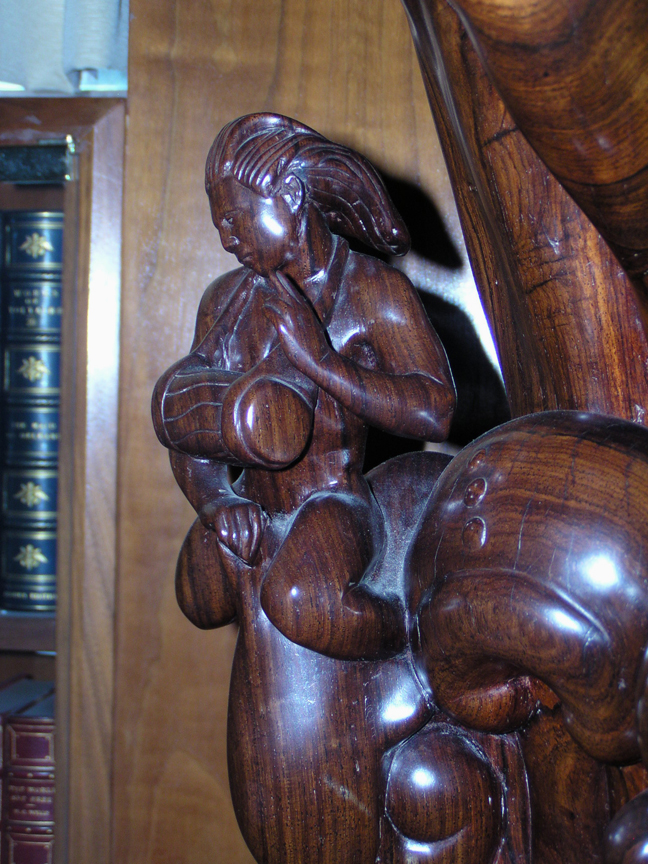 photo by Einar Einarsson Kvaran Donal Hord